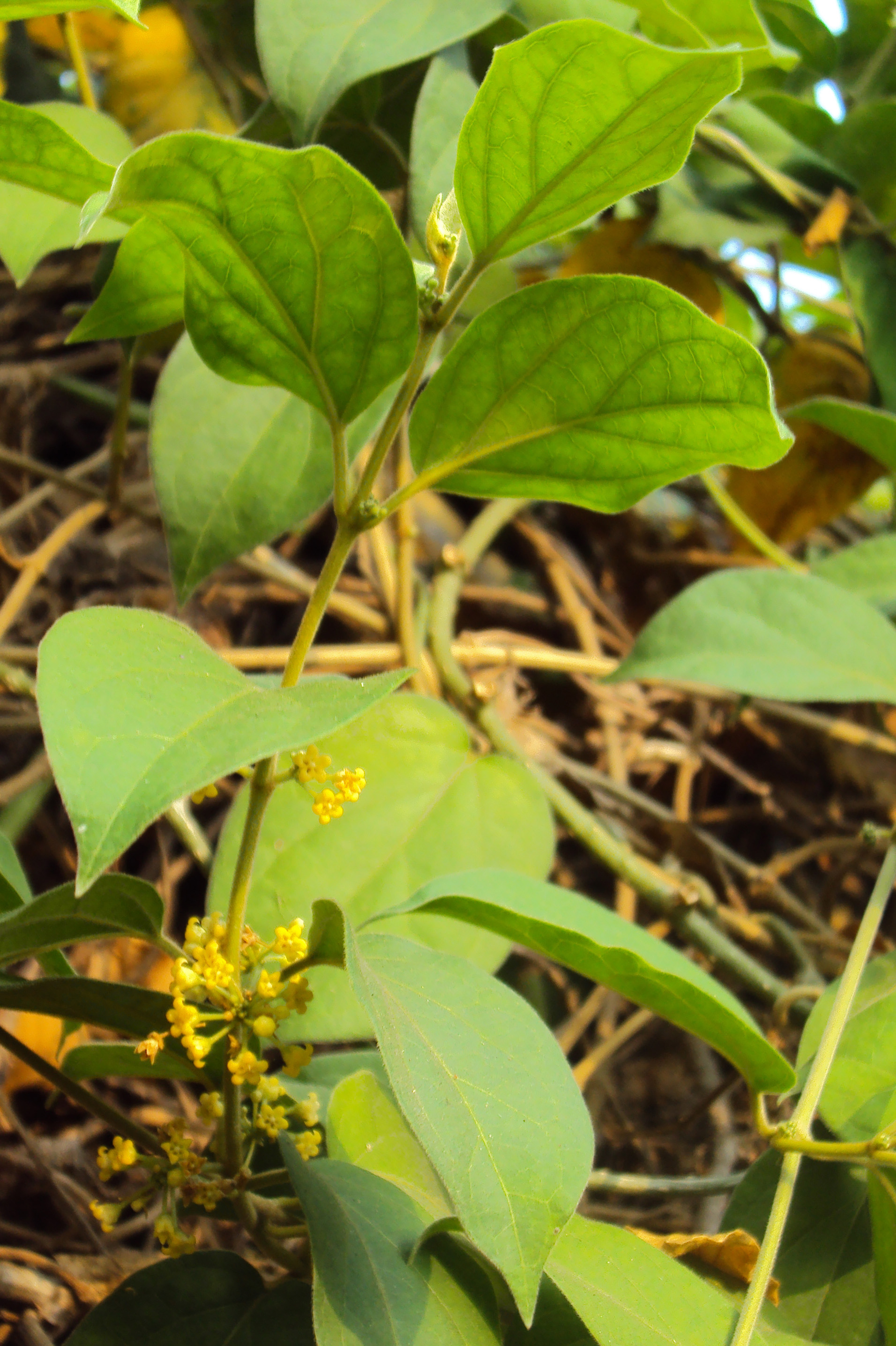 Gymnema sylvestre leaves and flowers. ചക്കരക്കൊല്ലി